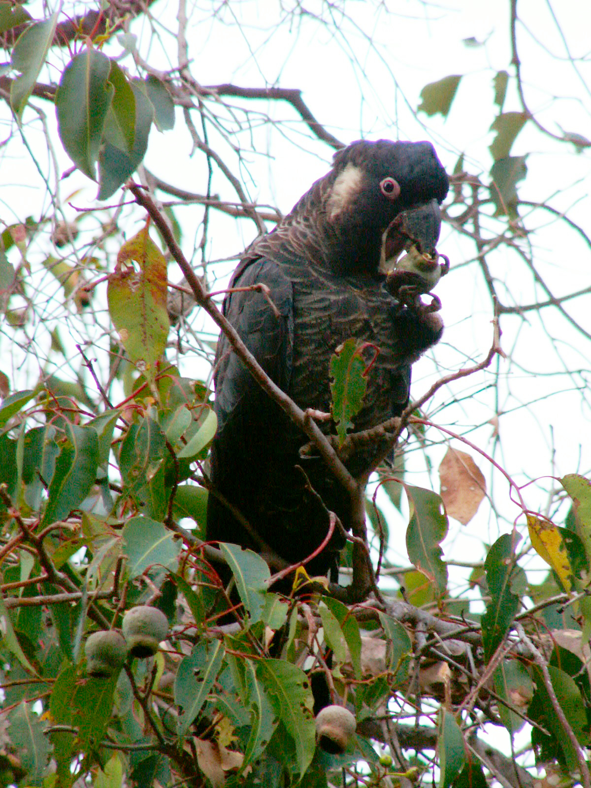 A male Long-billed Black Cockatoo (also called Baudin's Black Cockatoo) at Margaret River, Western Australia.